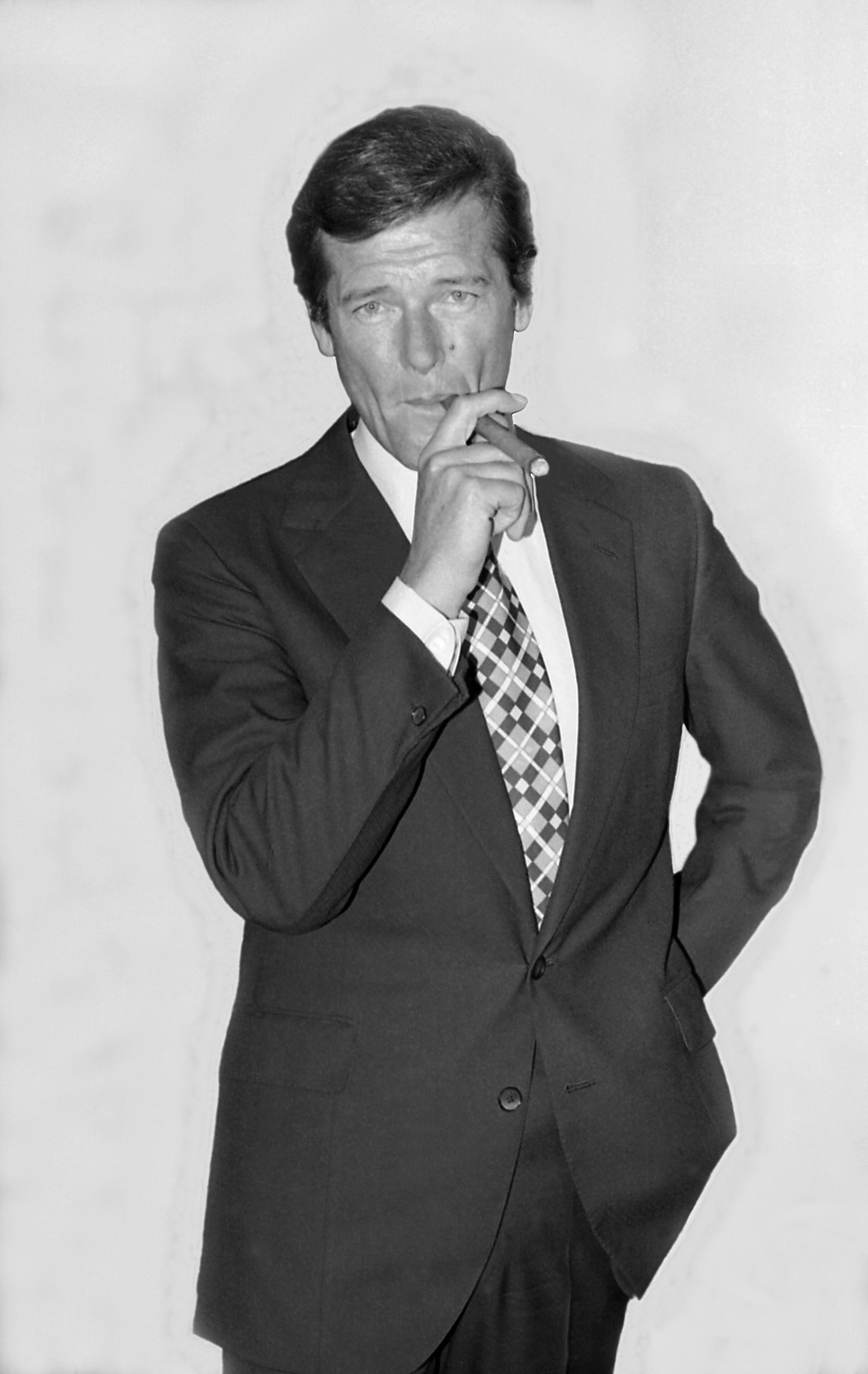 Sir Roger Moore taken photographer's studio Belgravia London